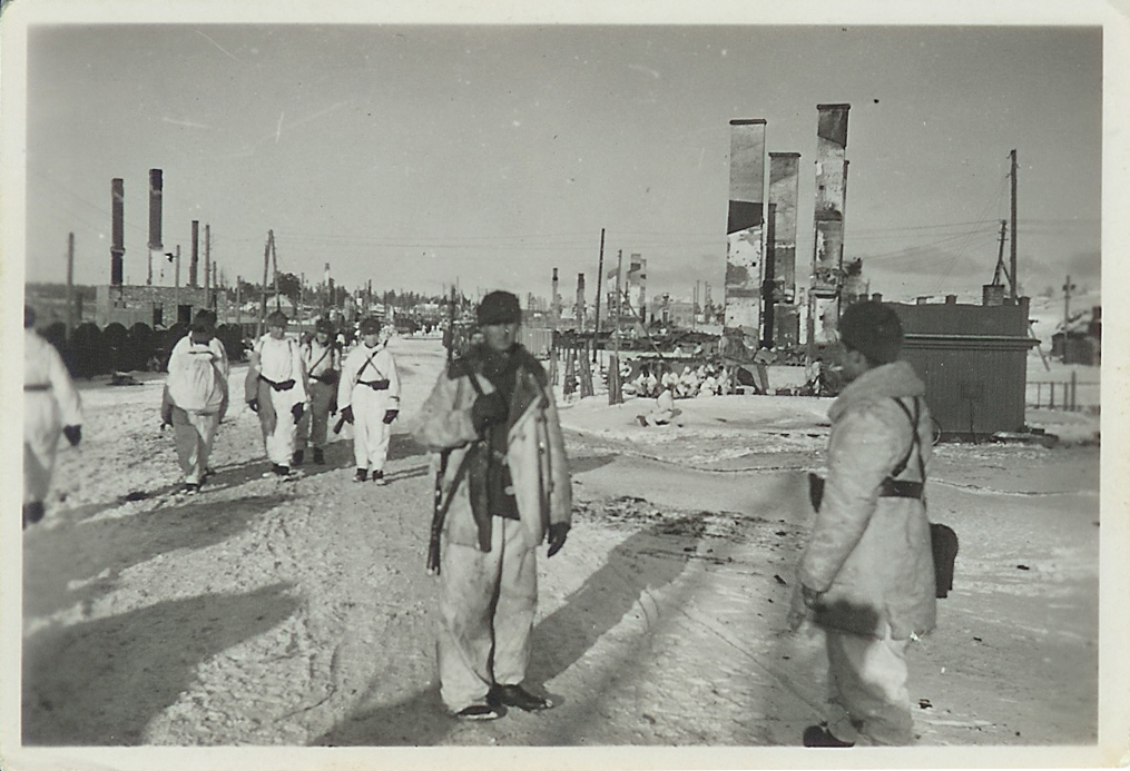 After the occupation of Kontupohja November 3, 1941.